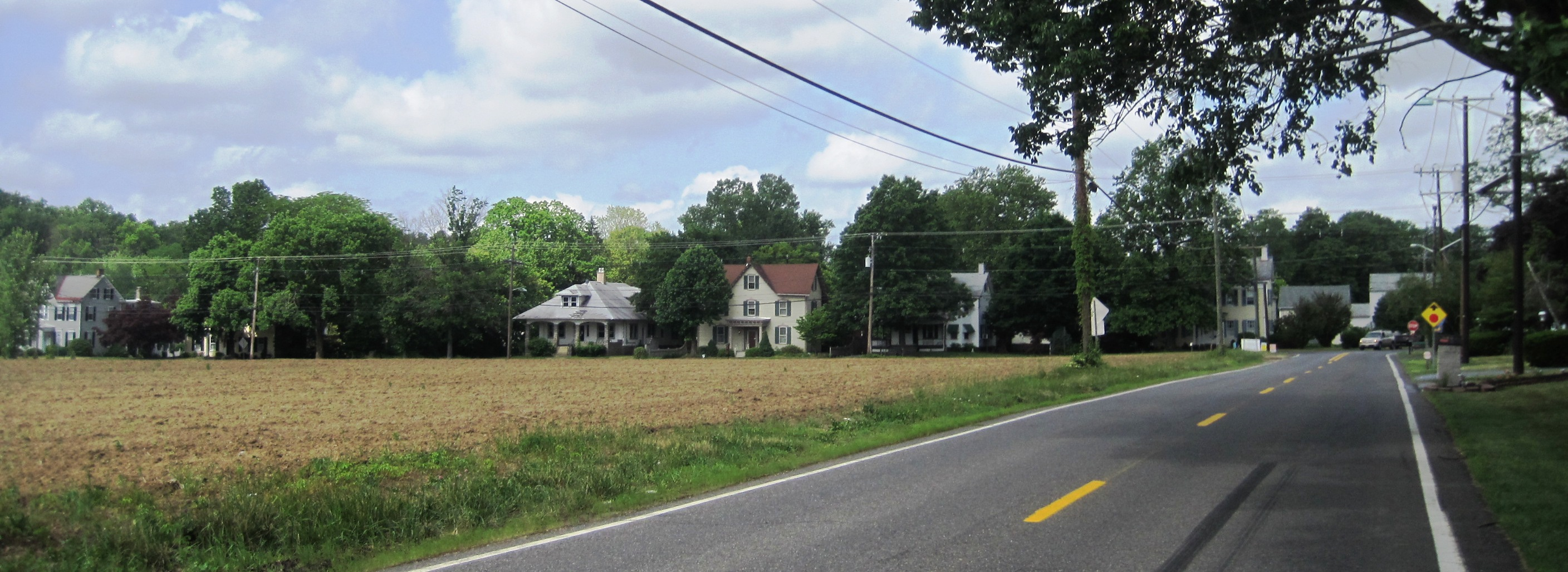 Photo of the unincorporated community of North Crosswicks, New Jersey within Hamilton Township, Mercer County. Photo taken on westbound South Broad Street approaching Church Street.